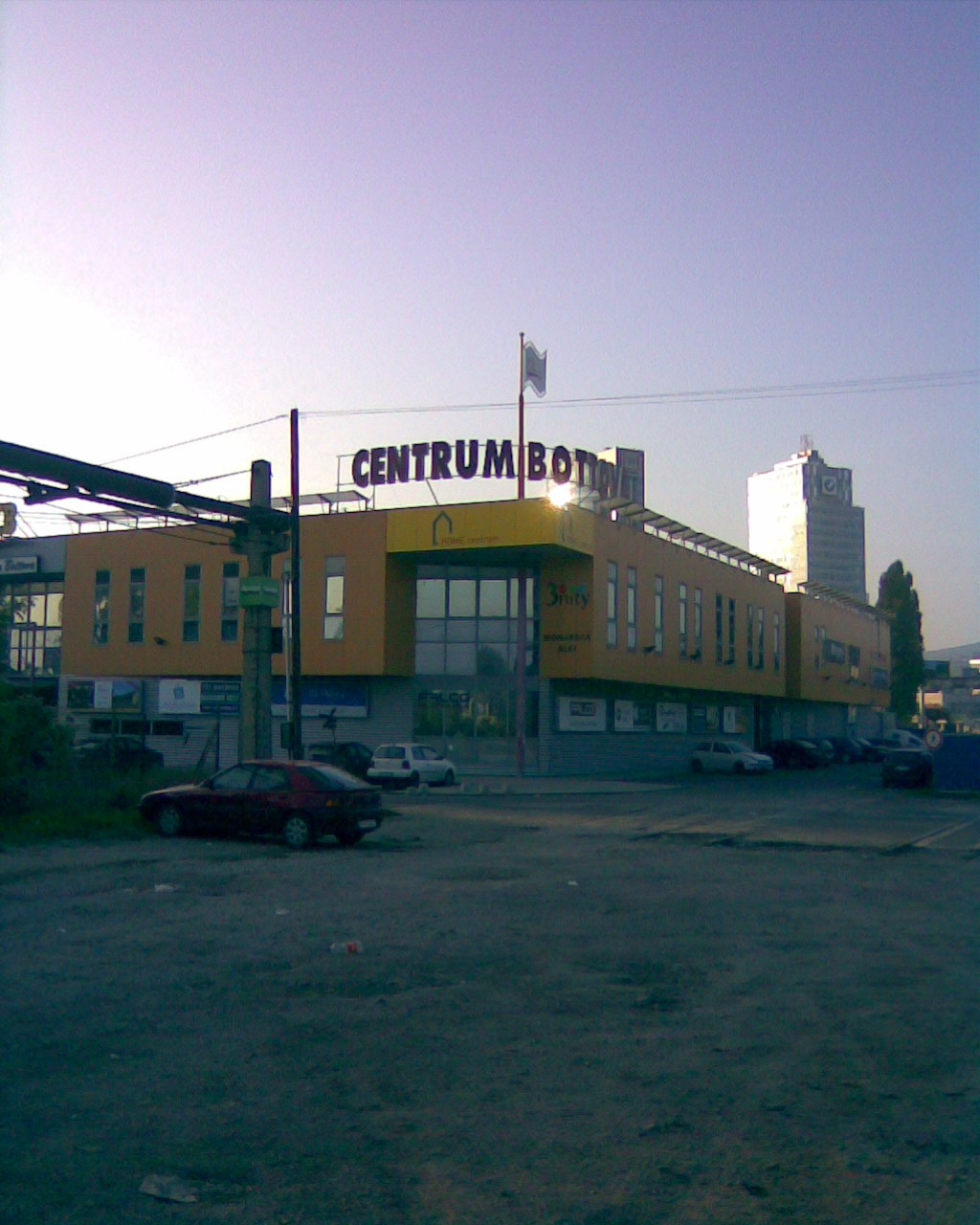 Bottova Shopping Center